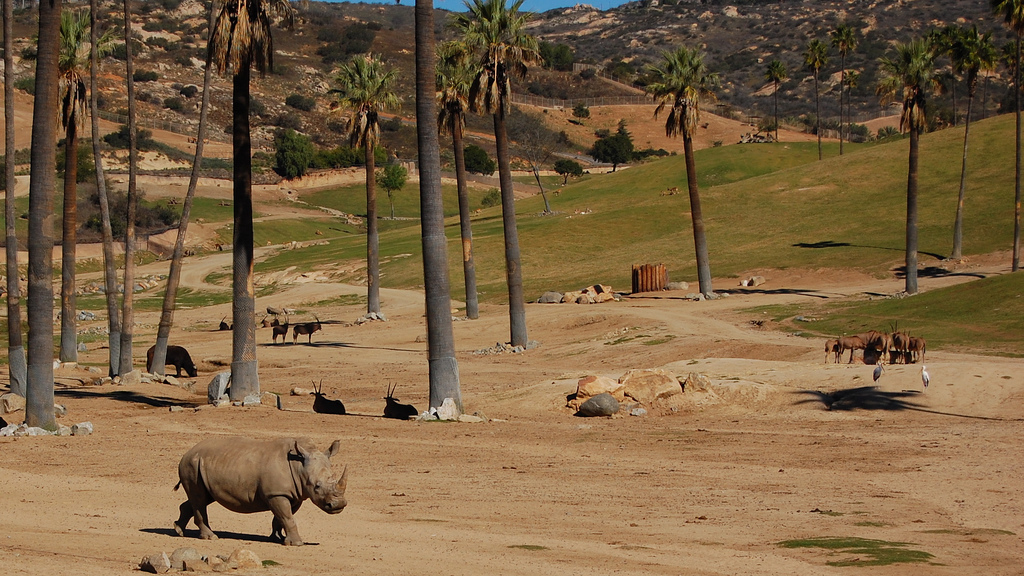 White rhino, San diego wild animal park